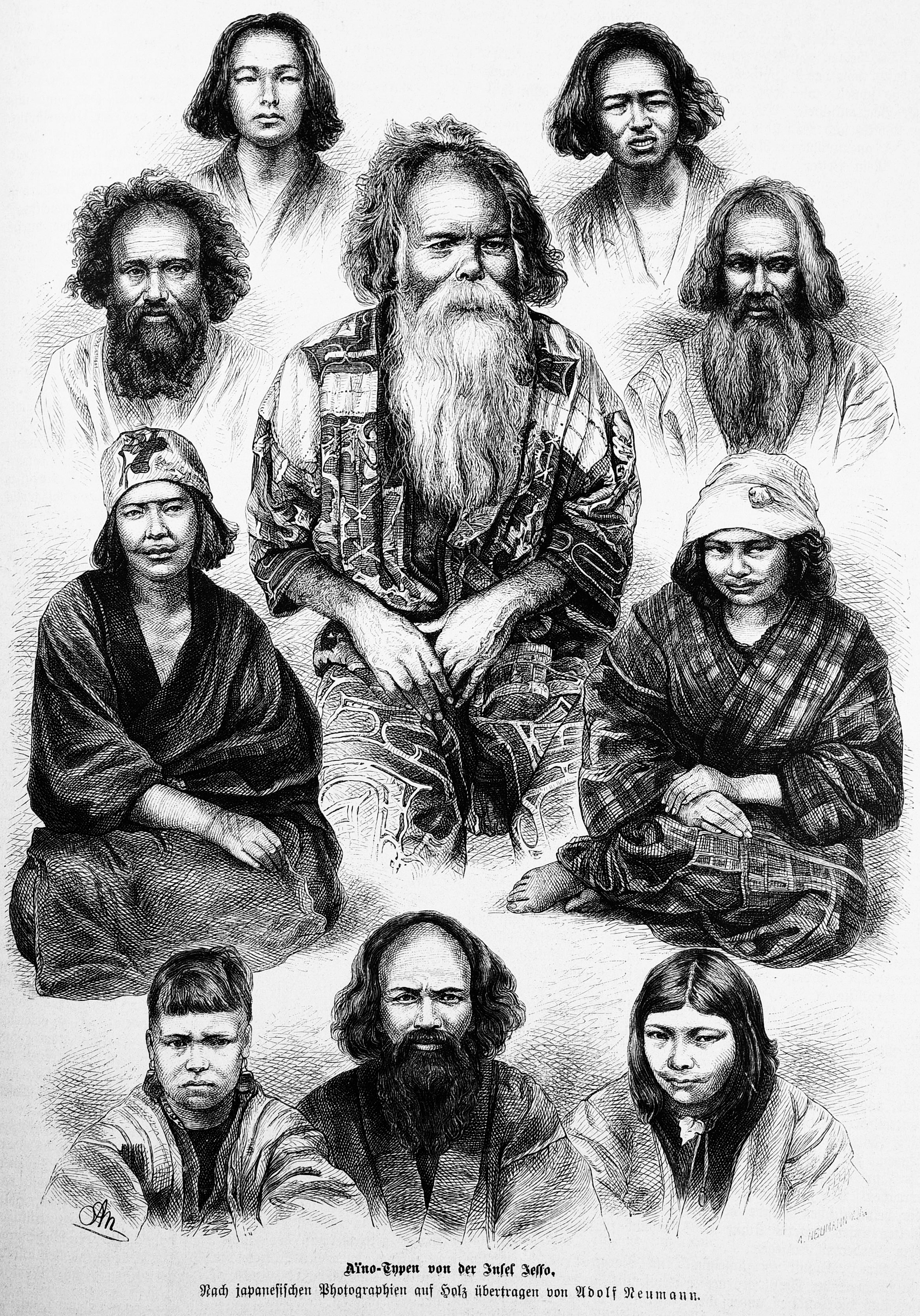 caption: "Aïno-Typen von der Insel Jesso.Nach japanischen Photographien auf Holz übertragen von Adolf Neumann."